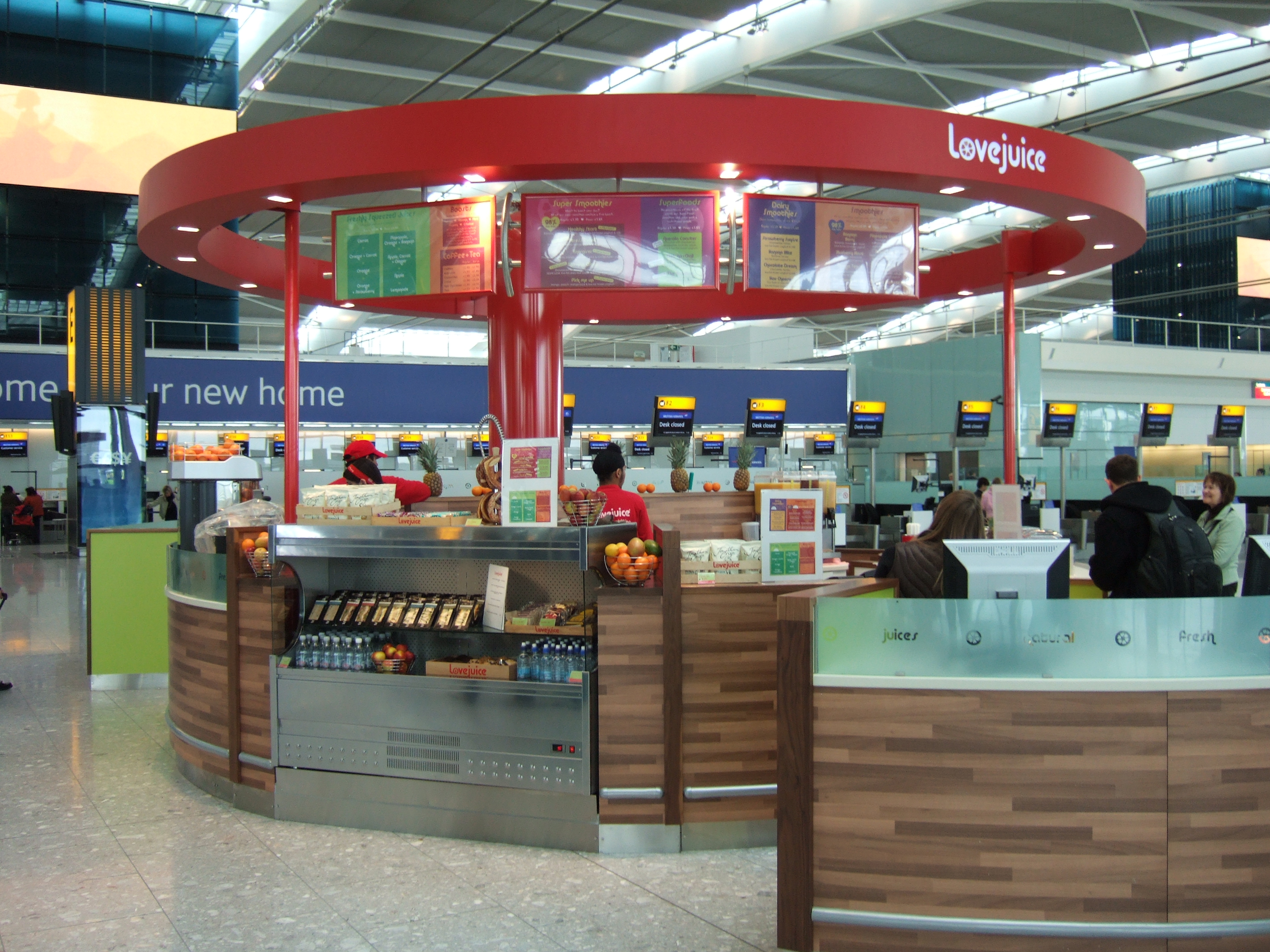 lovejuice juice bar at Heathrow Terminal 5